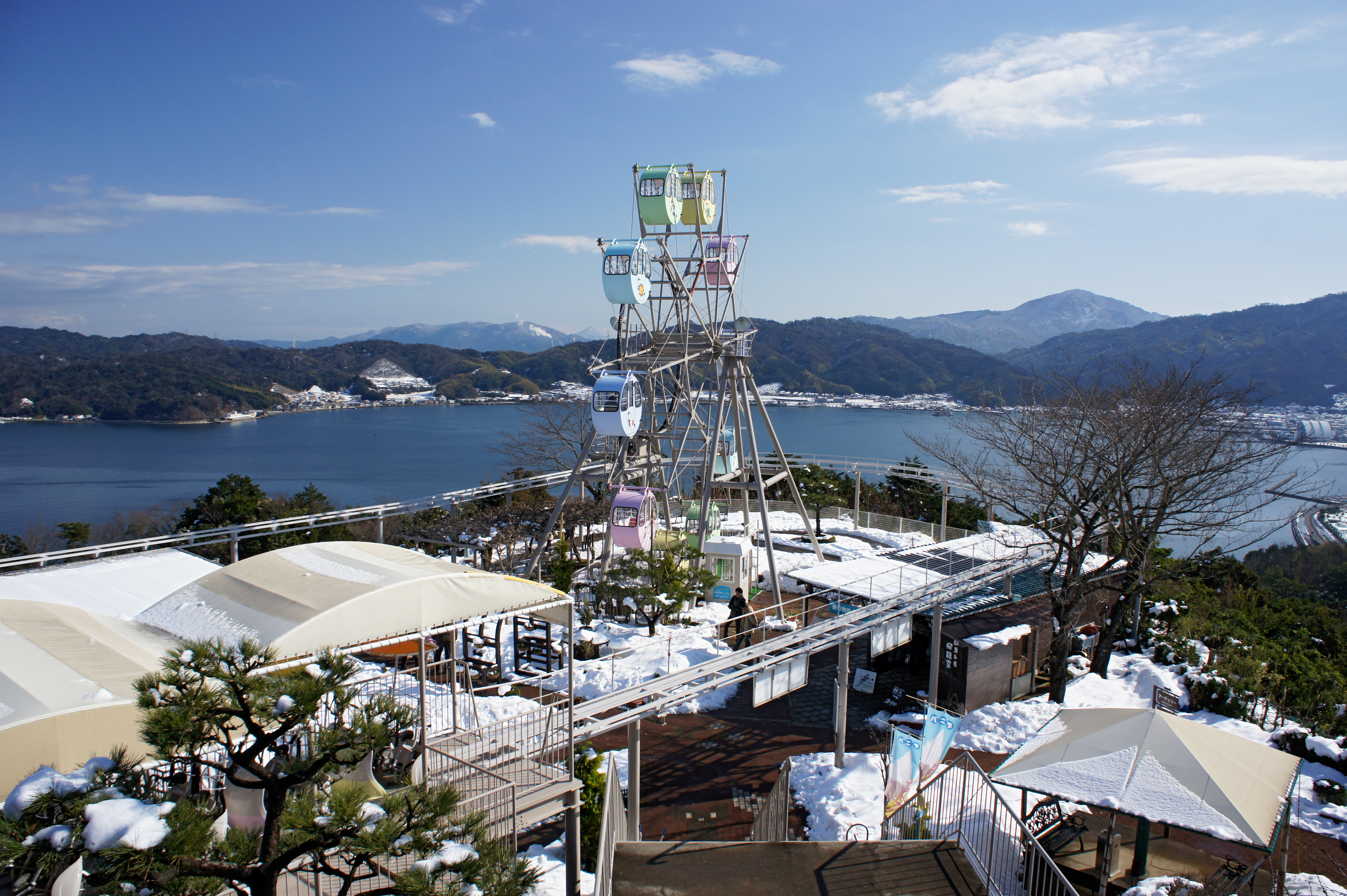 Amanohashidate View Land in Miyazu, Kyoto prefecture, Japan.